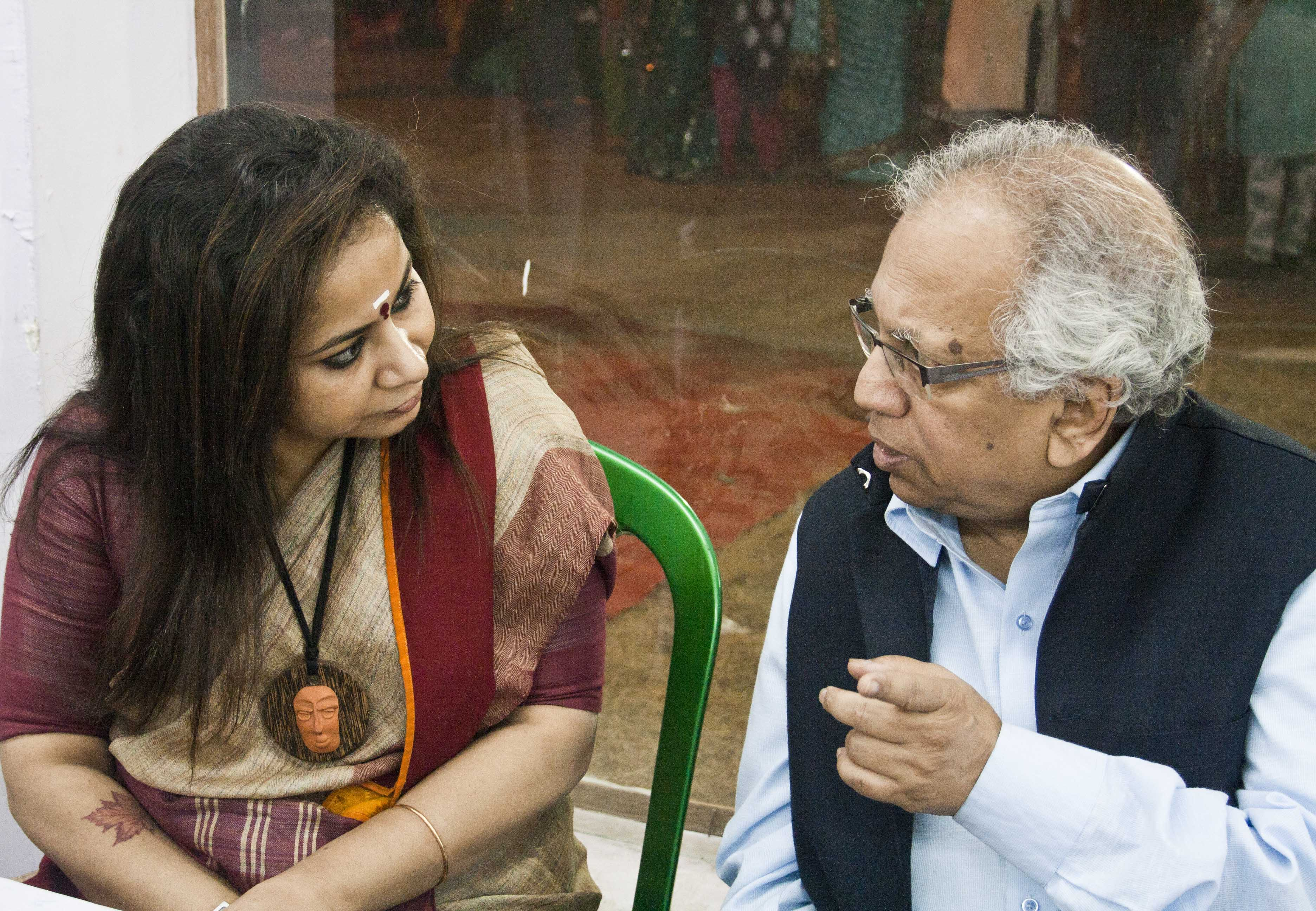 Poet Panchatapa and Writer Ranjan Bandyopadhyay at Kolkata International Book Fair 2015, Milan Mela Ground, Kolkata.